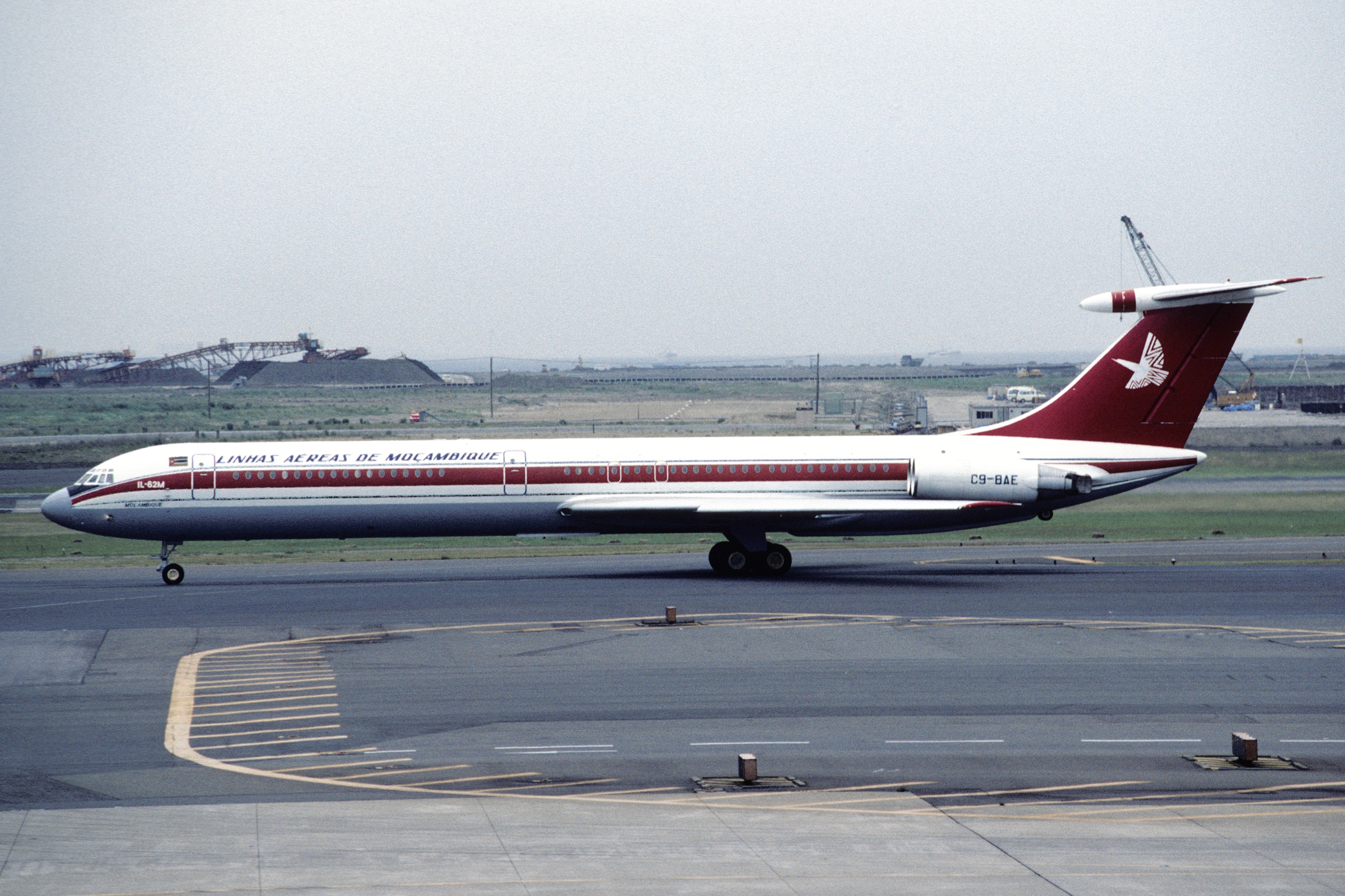 Old Pictures